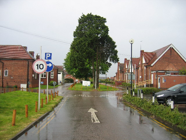 Rehabilitation Hospital. Formerly an Isolation Hospital, this complex is now isolated in a square buried under modern housing estates and business parks